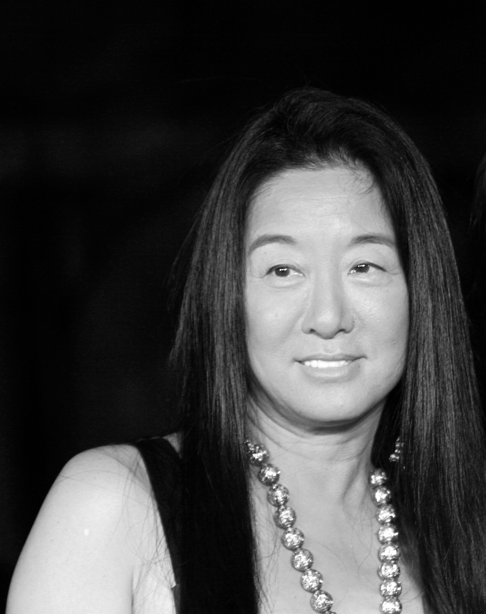 Designer Vera Wang at Ralph Lauren's 40th Anniversary celebration in the Conservancy Garden, Central Park, New York City, September 8, 2007.